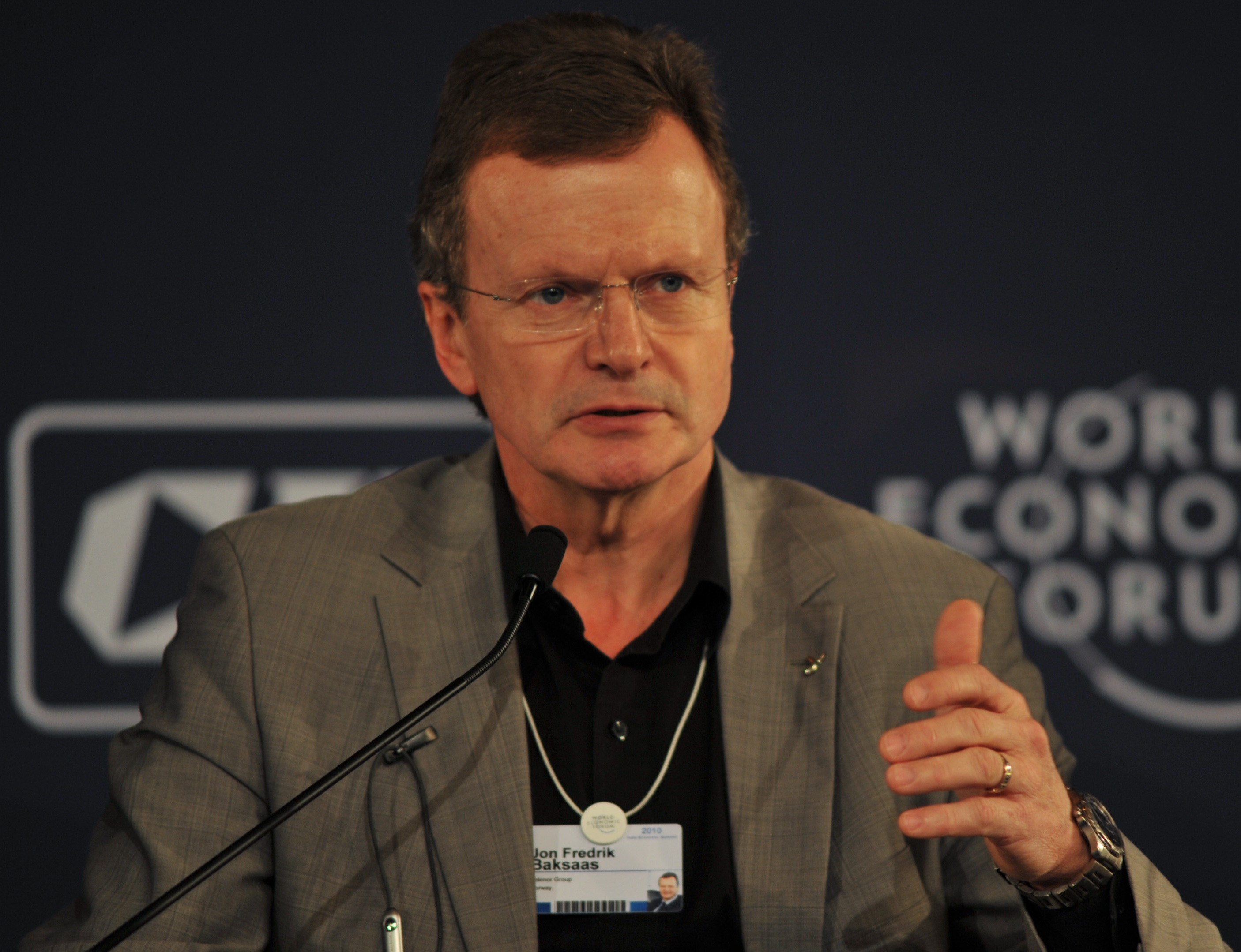 NEW DELHI/INDIA, 16NOV10 - Jon Fredrik Baksaas, President and Chief Executive Officer, Telenor Group, Norway; Co-Chair of the India Economic summit, during the Shaping India's Mobile Health Ecosystem at the World Economic Forum's India Economic Summit 2010 held in New Delhi, 14-16 November 2010. Copyright (cc-by-sa) © World Economic Forum ( /Photo Eric Miller